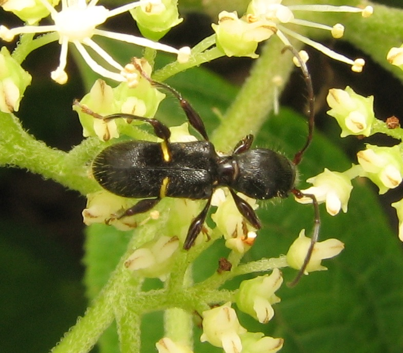 Longhorn beetle, Euderces picipes on wild hydrangea flowers. Bowman's Hill Wildflower Preserve, Bucks County, Pennsylvania, USA.